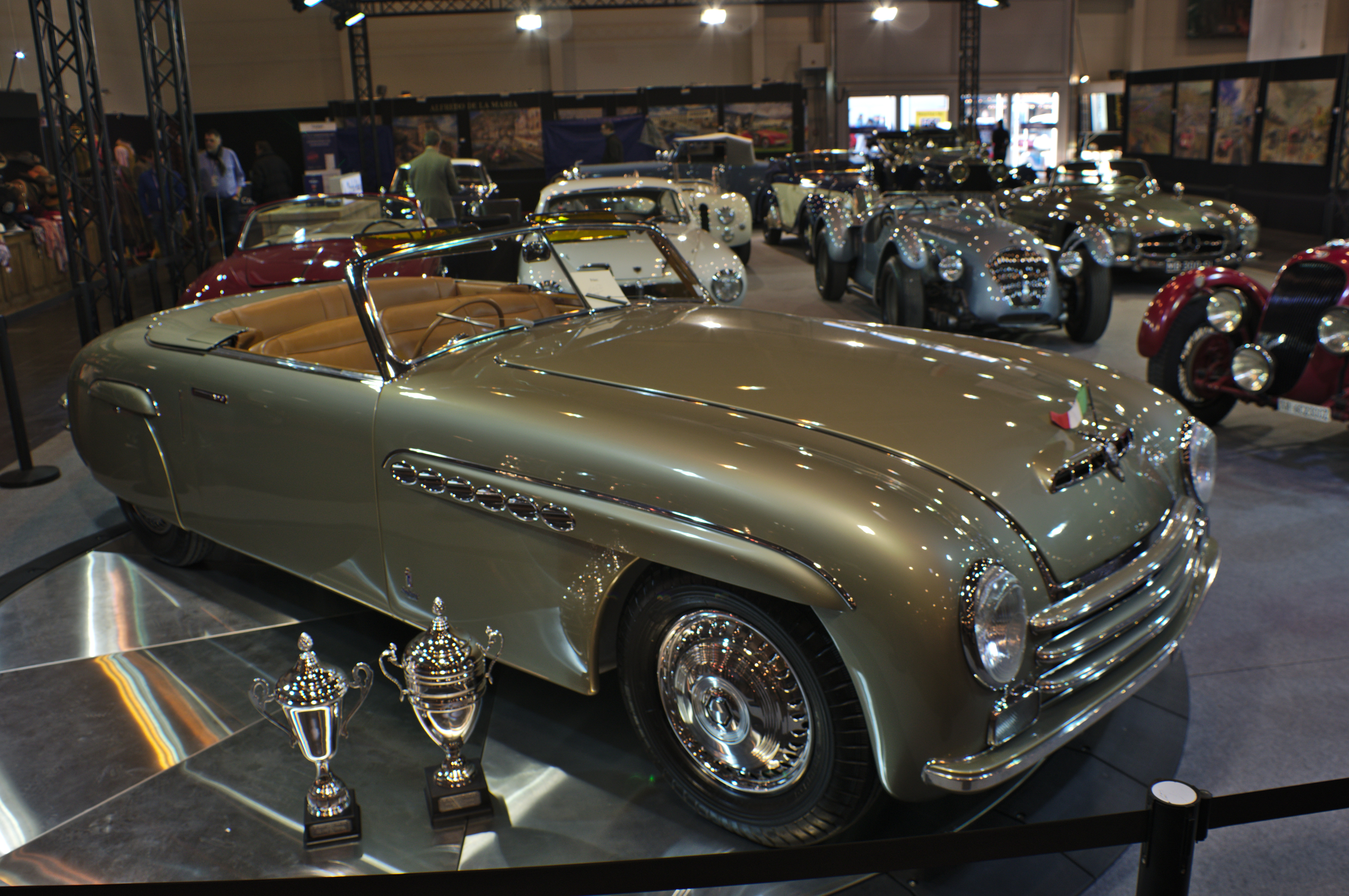 Techno Classica 2018 Model: Alfa Romeo 6C 2500 Cabriolet Pinin Farina Speziale Chassis n° 915169 Coachbuilder: Pinin Farina Base car: Alfa Romeo 6C 2500 1942 Nr produced: 1 Build period: 1946